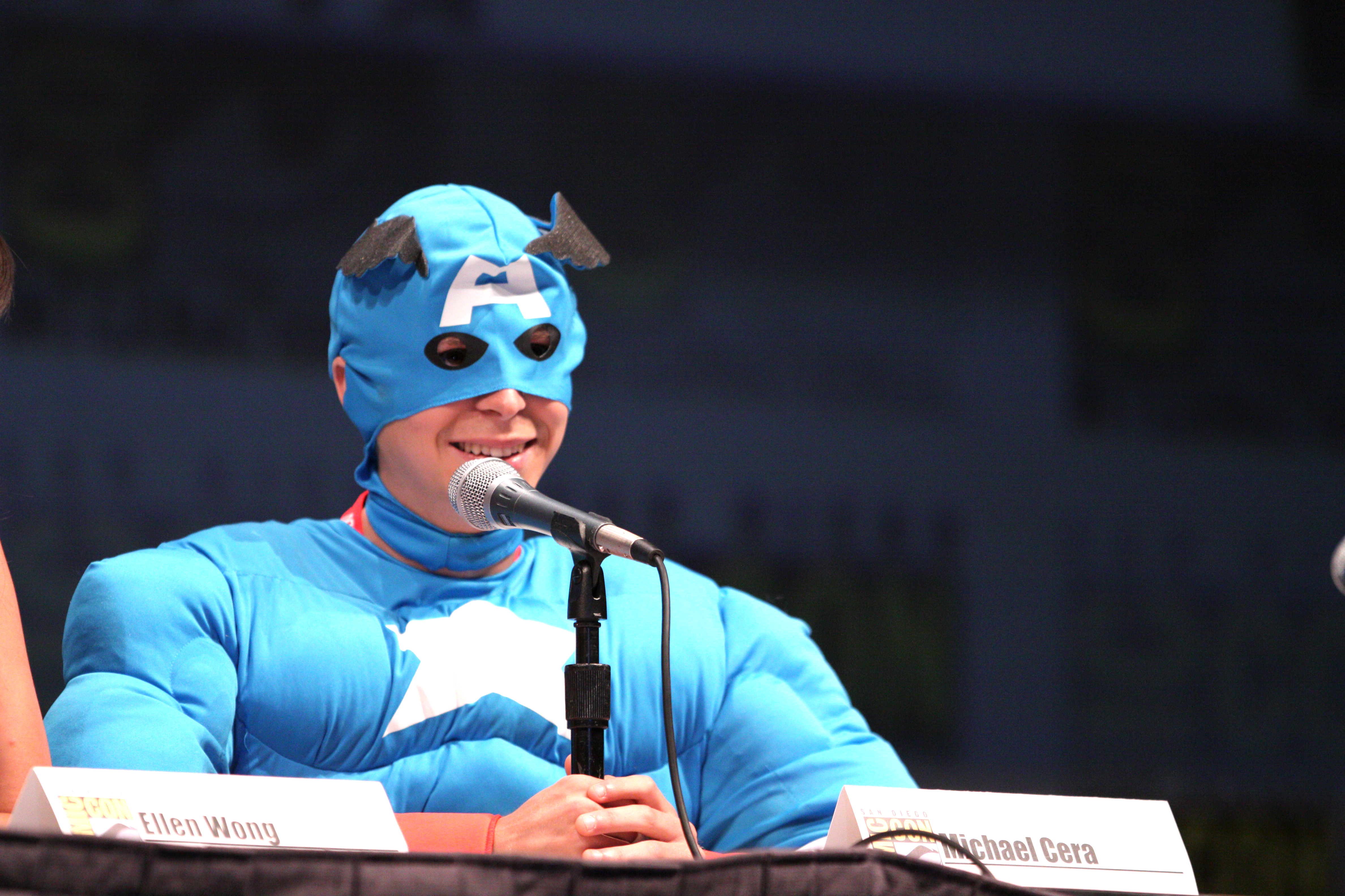 Actor Michael Cera dressed as Captain America on the Scott Pilgrim vs. the World panel at the 2010 San Diego Comic Con in San Diego, California.